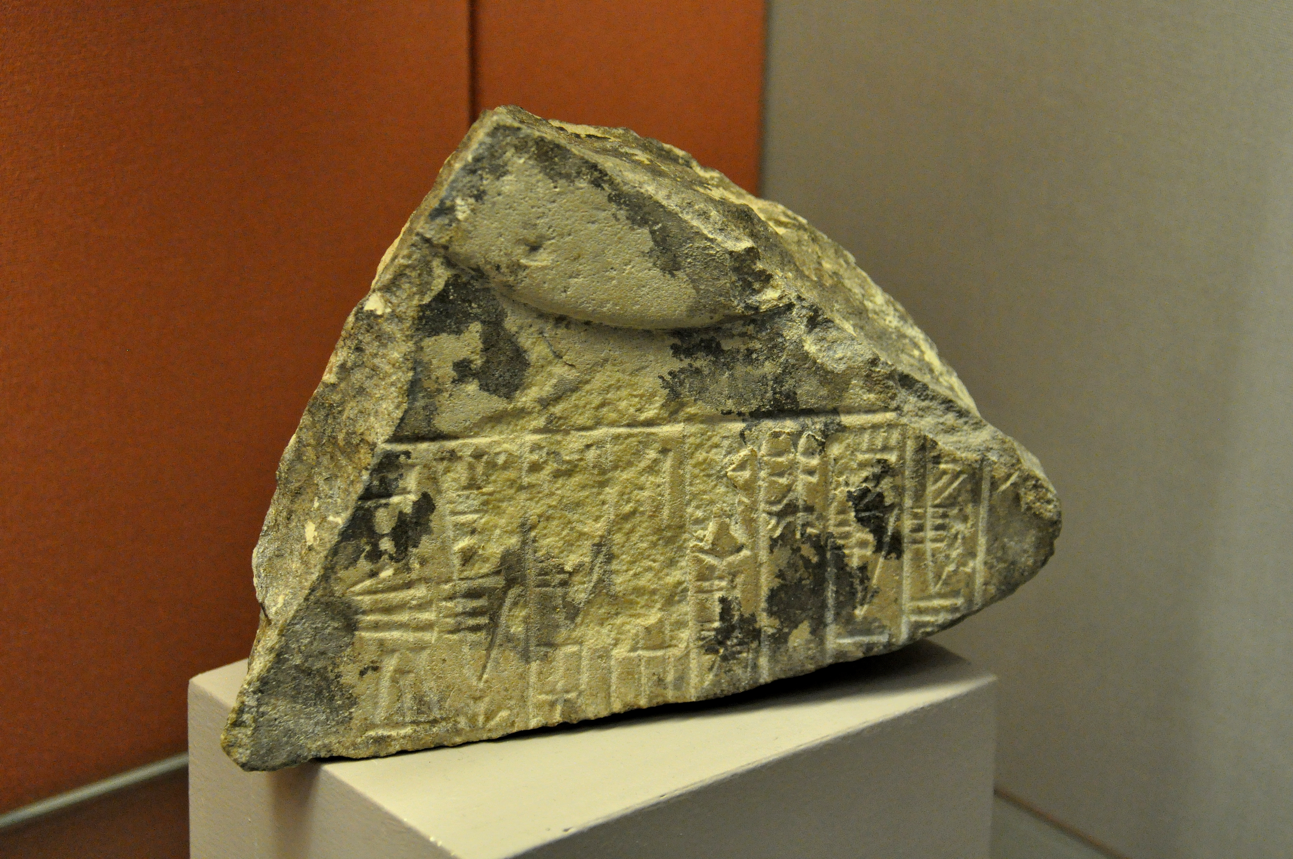 Part of a stone monument inscribed with the name of Utu-hegal, king of Uruk. Reign of Utu-hegal, c. 2125 BCE. From Ur, Southern Mesopotamia, modern-day Iraq. The British Museum, London.